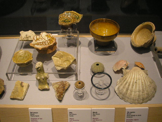 Fragment of idol, Byzantine terracotta. Object and bracelet, late Byzantine period.